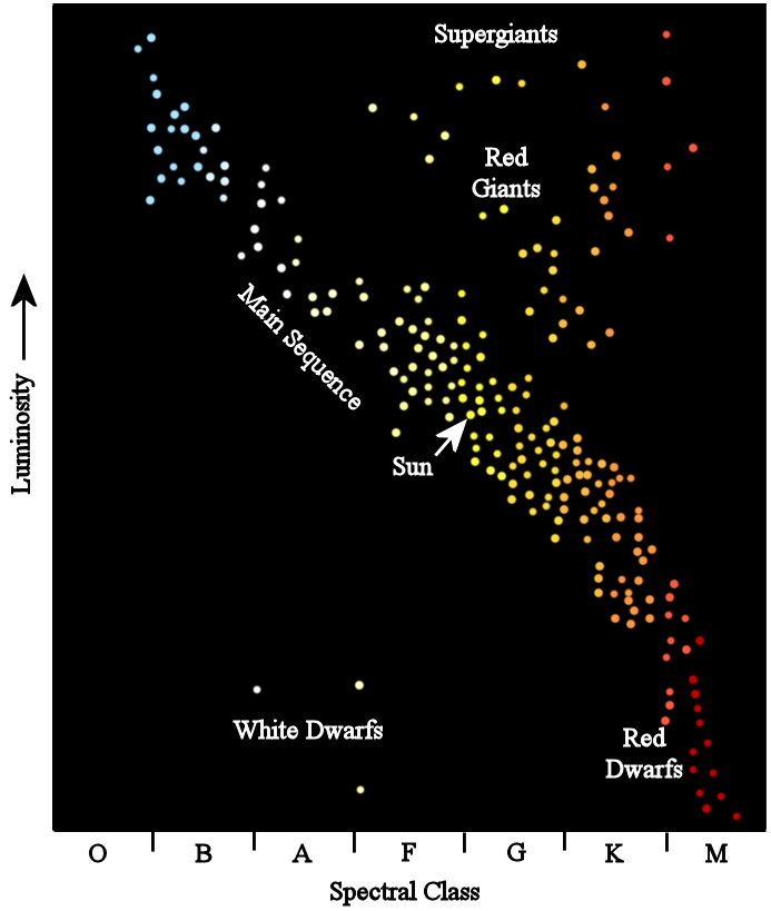 This is an example of a Hertzsprung-Russell diagram; a plot of luminosity versus spectral class for a group of stars. The diagonal band labelled "main sequence" is where dwarf stars such as the Sun spend most of their active lifespan. Red giants and supergiants are evolved stars with a mass greater than a red dwarf, that are burning elements heavier than hydrogen. However, White Dwarfs are quite dense, non-luminous, but are still less in mass than supergiants. Once this supply of fuel is exhausted, these stars will migrate to the lower left on this diagram, becoming white dwarfs.